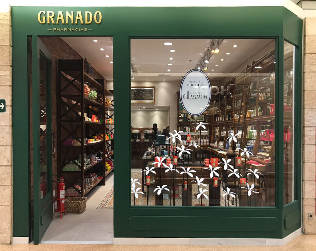 Vitrine loja Granado